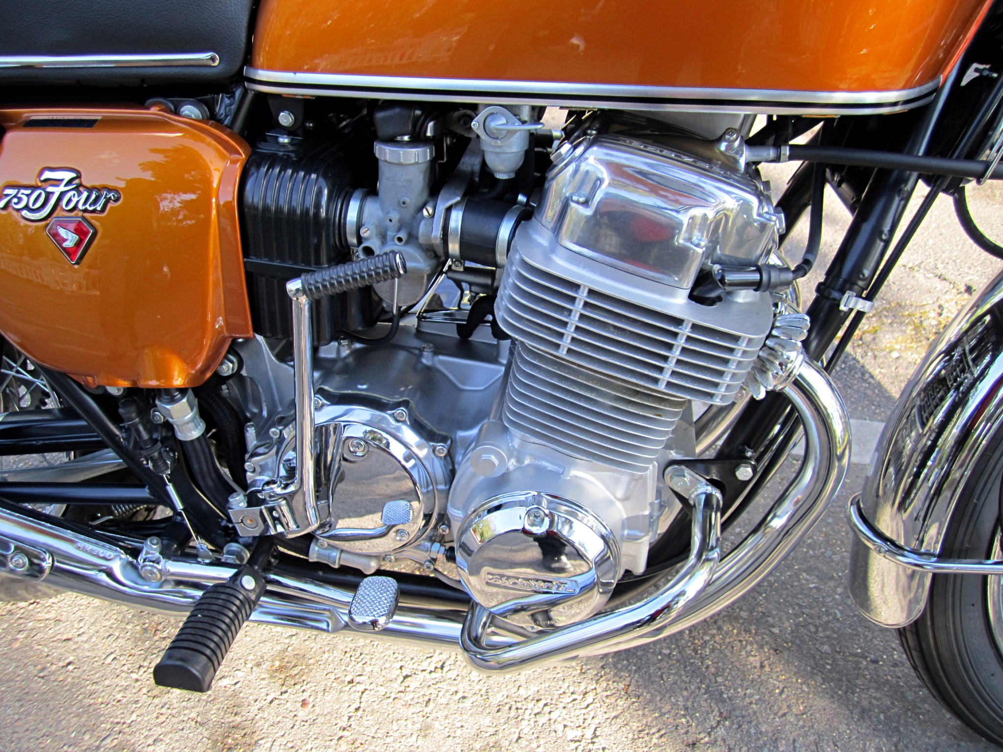 Honda CB 750 Four K1 (1971). Engine and kick start lever.